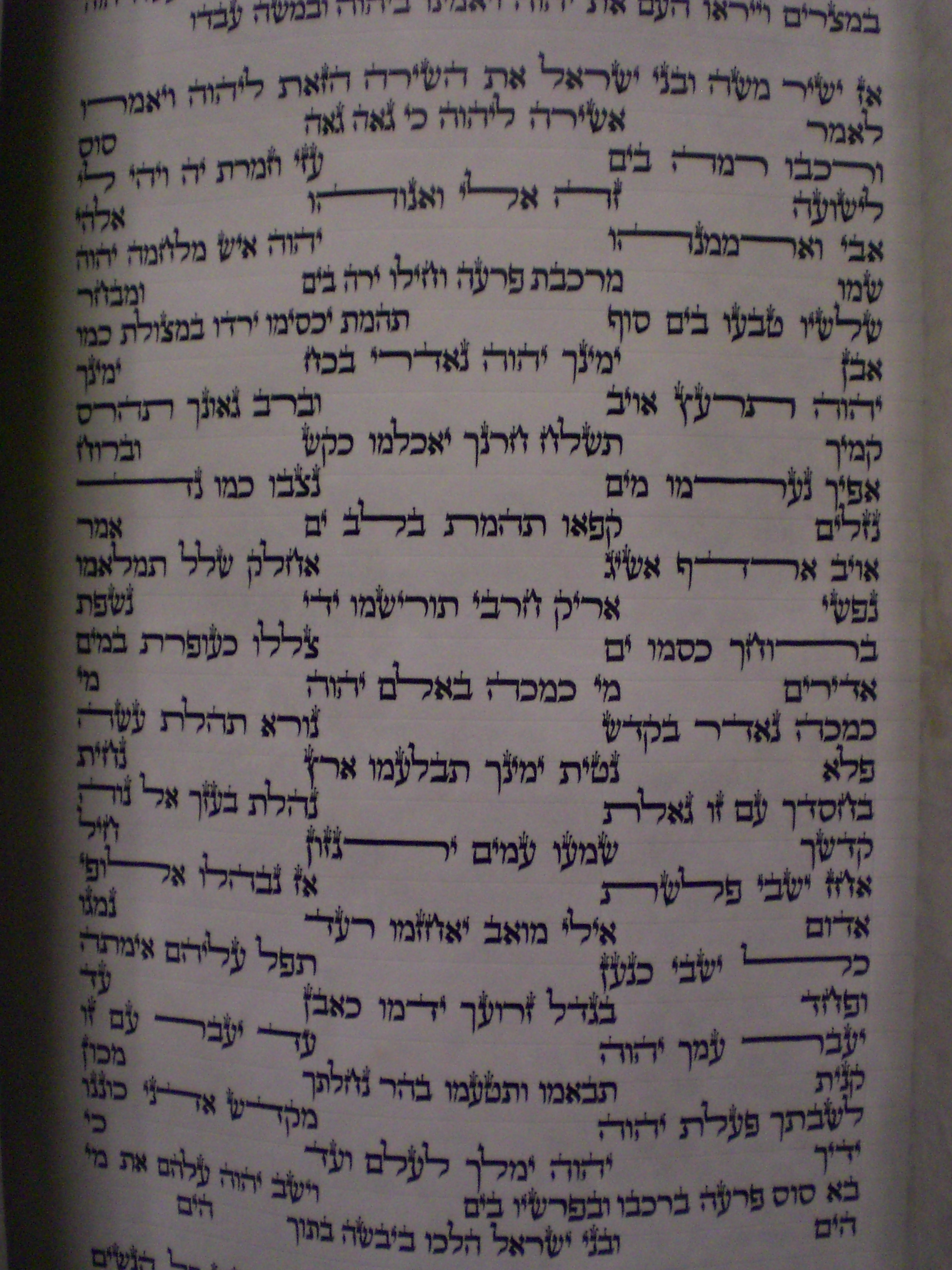 Song of the sea, Az yashir.